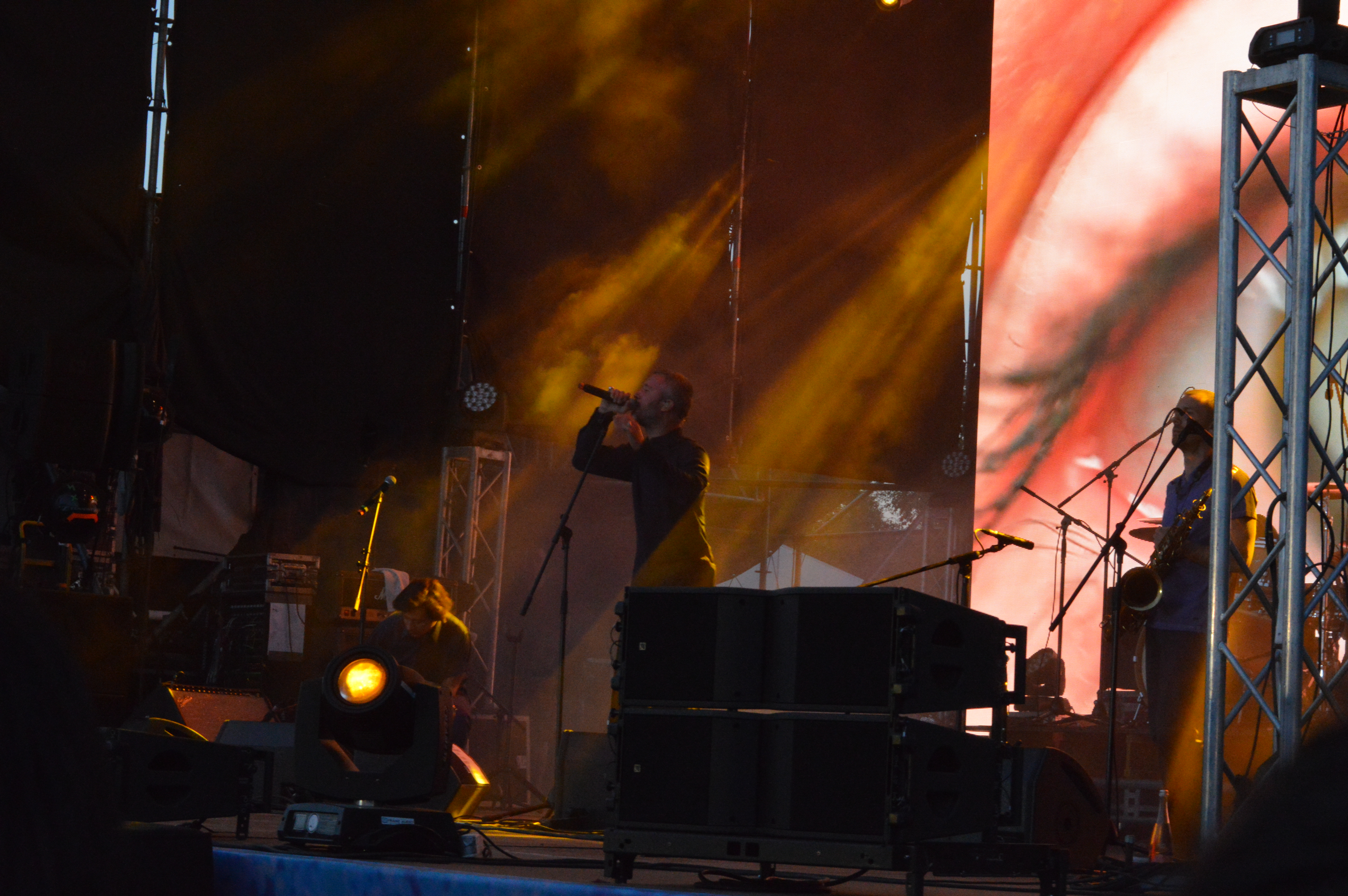 Ukrainian singer Serhiy Babkin at the 2018 MRPL City Festival